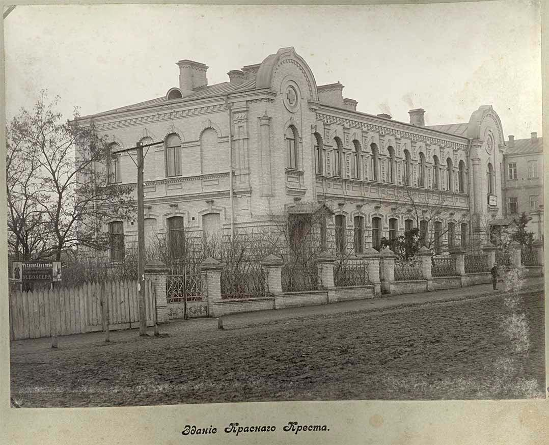 Red Cross building in Berdychiv